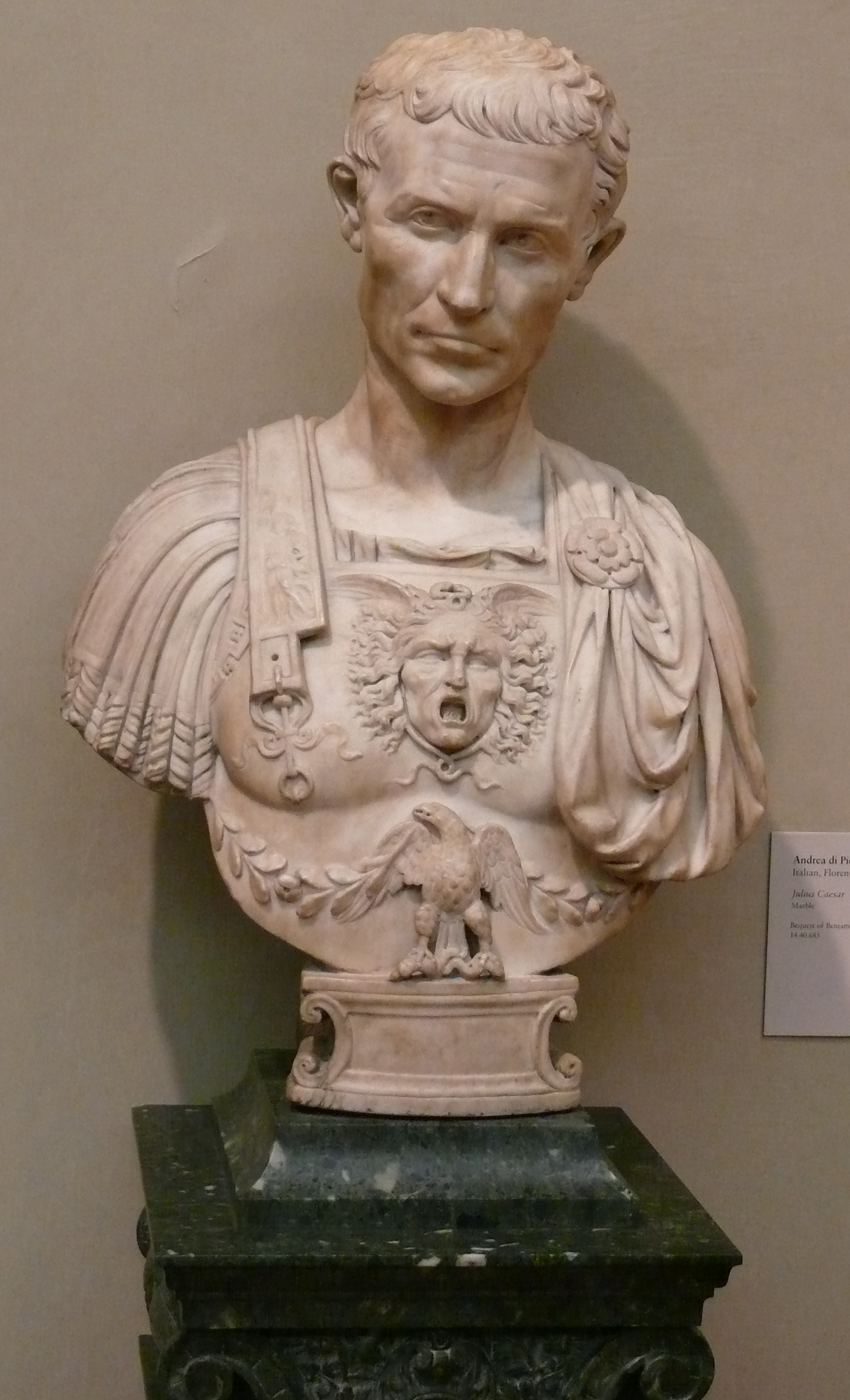 Andrea di Pietro di Marco Ferrucci (1465-1526), Julius Caesar in the Metropolitan Museum of Art, New York, NY. Marble Italian (Florentine) Bequest of Benjamin Altman Accession number: 14.40.685